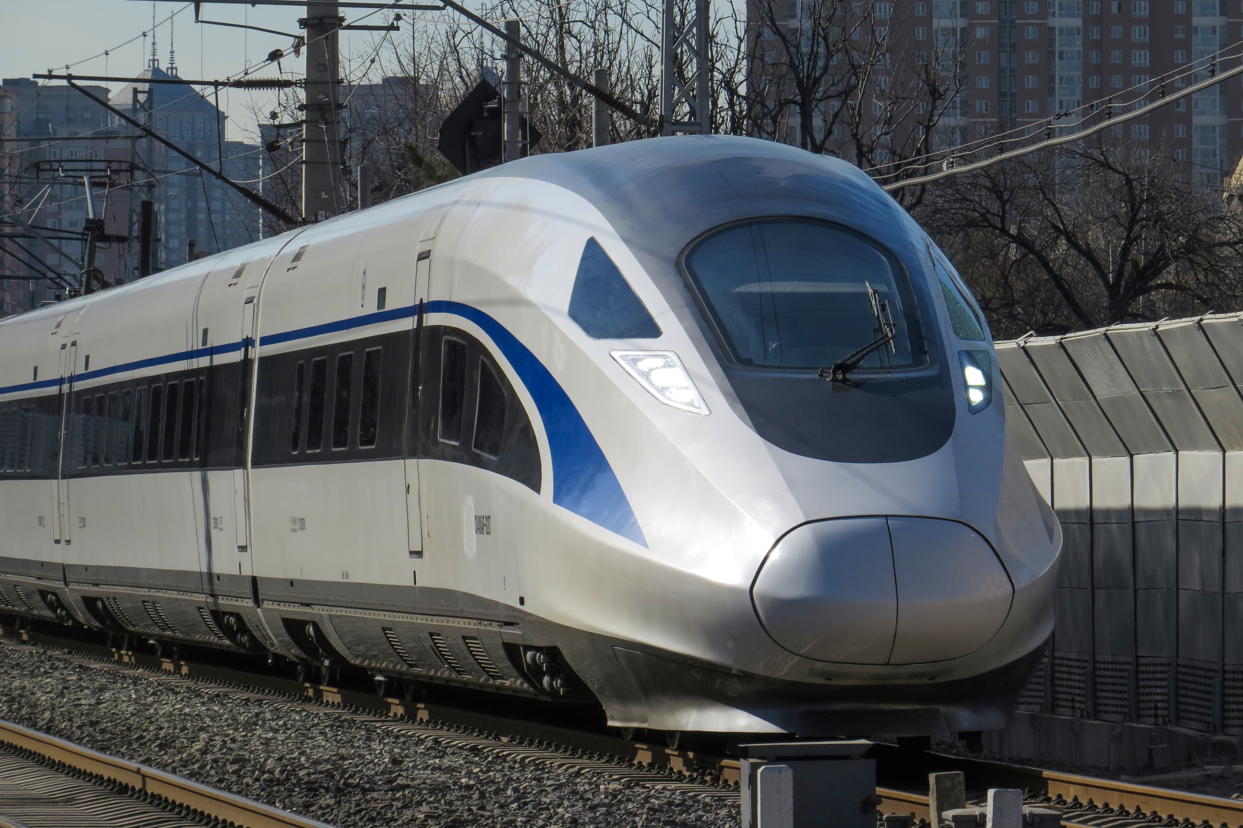 0G66 from the depot. The standardized EMU goes on running after 3/10.